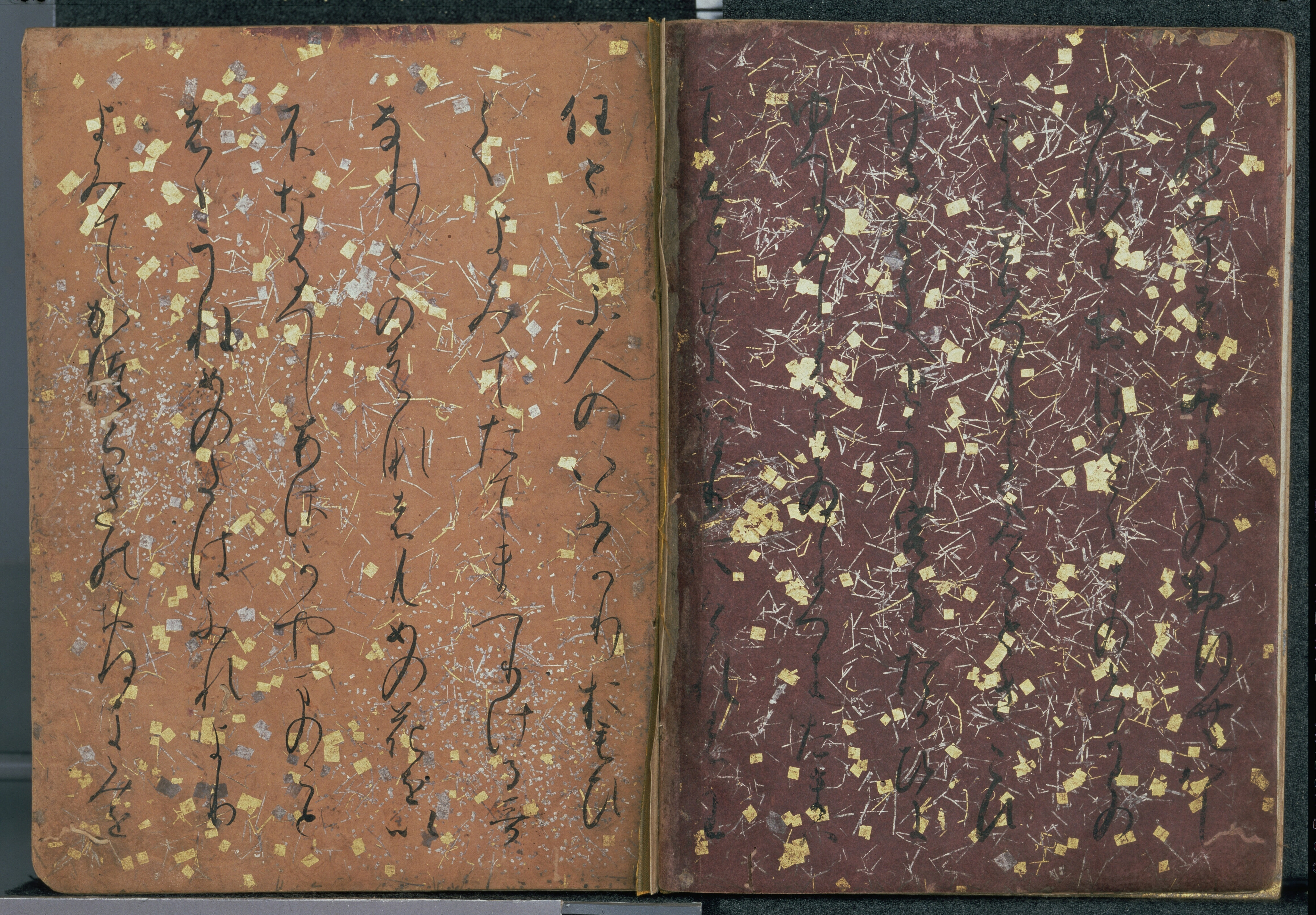 Collected Japanese Poems of Ancient and Modern Times (古今和歌集, Kokin Wakashū), Gen'ei edition